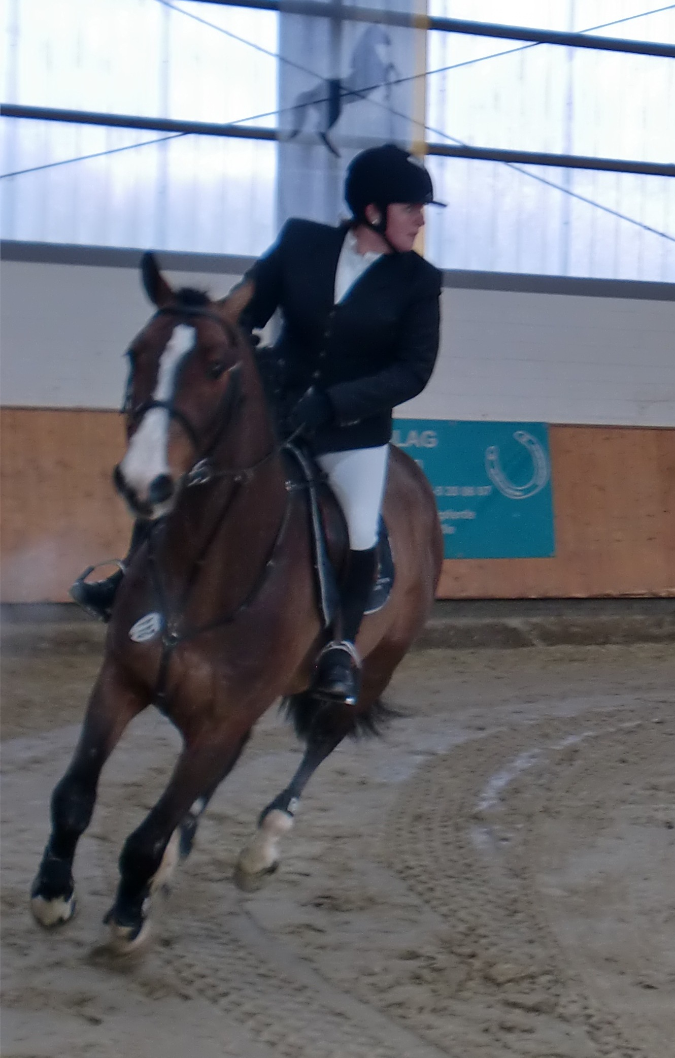 Helena Stormanns with "Cupido Z", show jumping horse competition, Gut Neuhaus Indoors 2010, Grevenbroich (Germany)